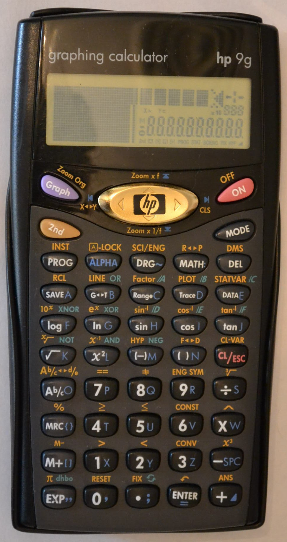 A top-down view of a HP 9g graphing calculator performing the display self-test. Some pixels are malfunctioning.